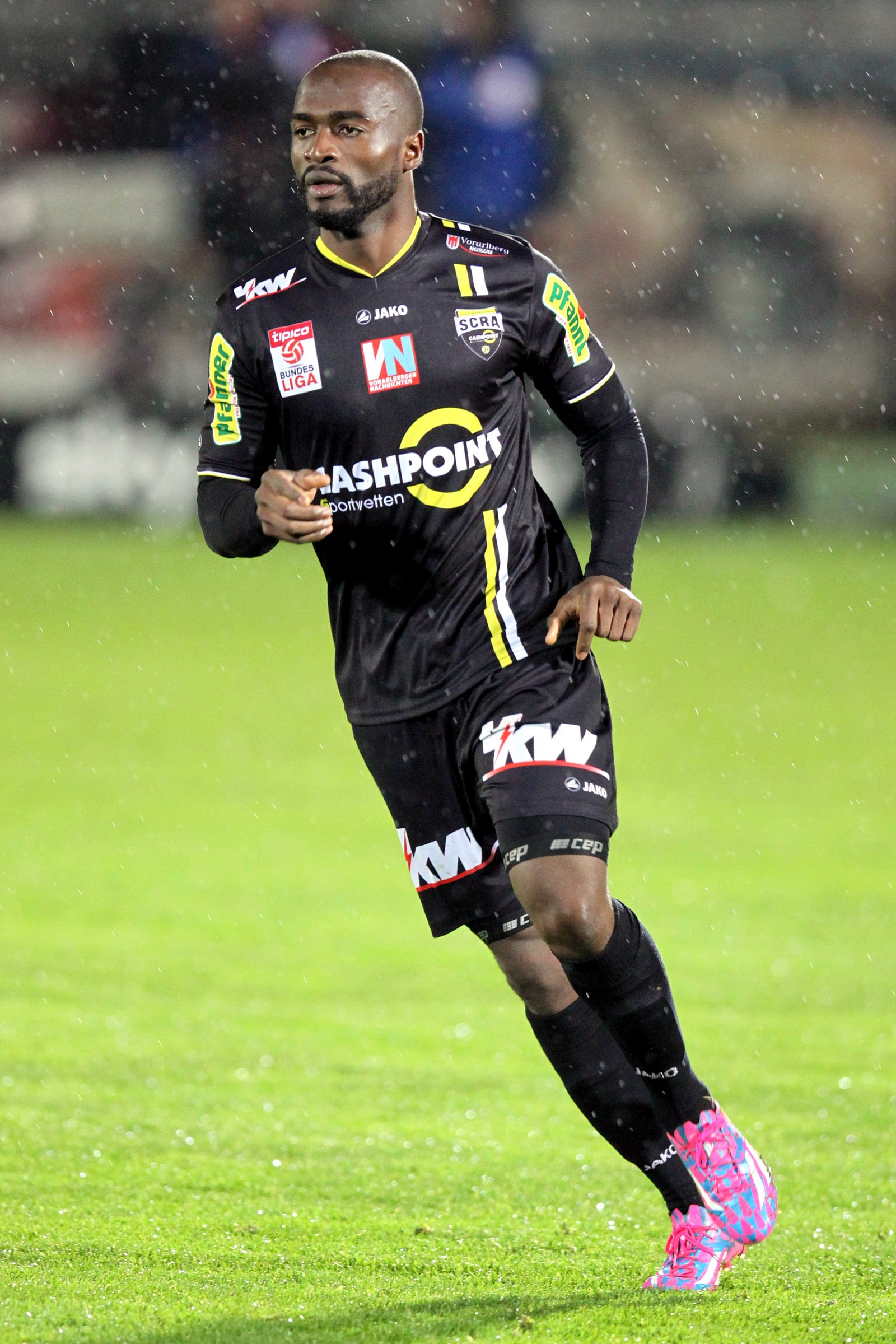 2014–15 Austrian Football Bundesliga: SC Wiener Neustadt vs. SC Rheindorf Altach (2:0 / 0:0) at 2014-12-06 in the Stadion Wiener Neustadt. – The photo shows en: (SC Wiener Neustadt/SC Rheindorf Altach). The making of this work was supported by Wikimedia Austria. For other files made with the support of Wikimedia Austria, please see the category Supported by Wikimedia Österreich.